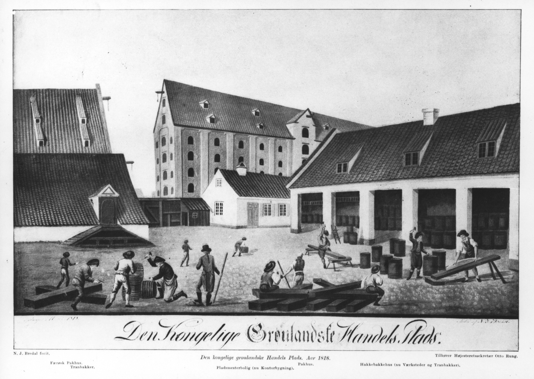 Den Kongelige Grønlandske Handels Plads on Christianshavn in Copenhagen, Denmark